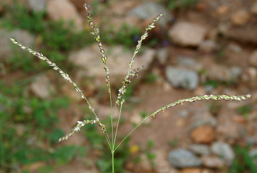 Alloteropsis cimicina (L.) Stapf in Keesara, Rangareddy district, Andhra Pradesh, India.